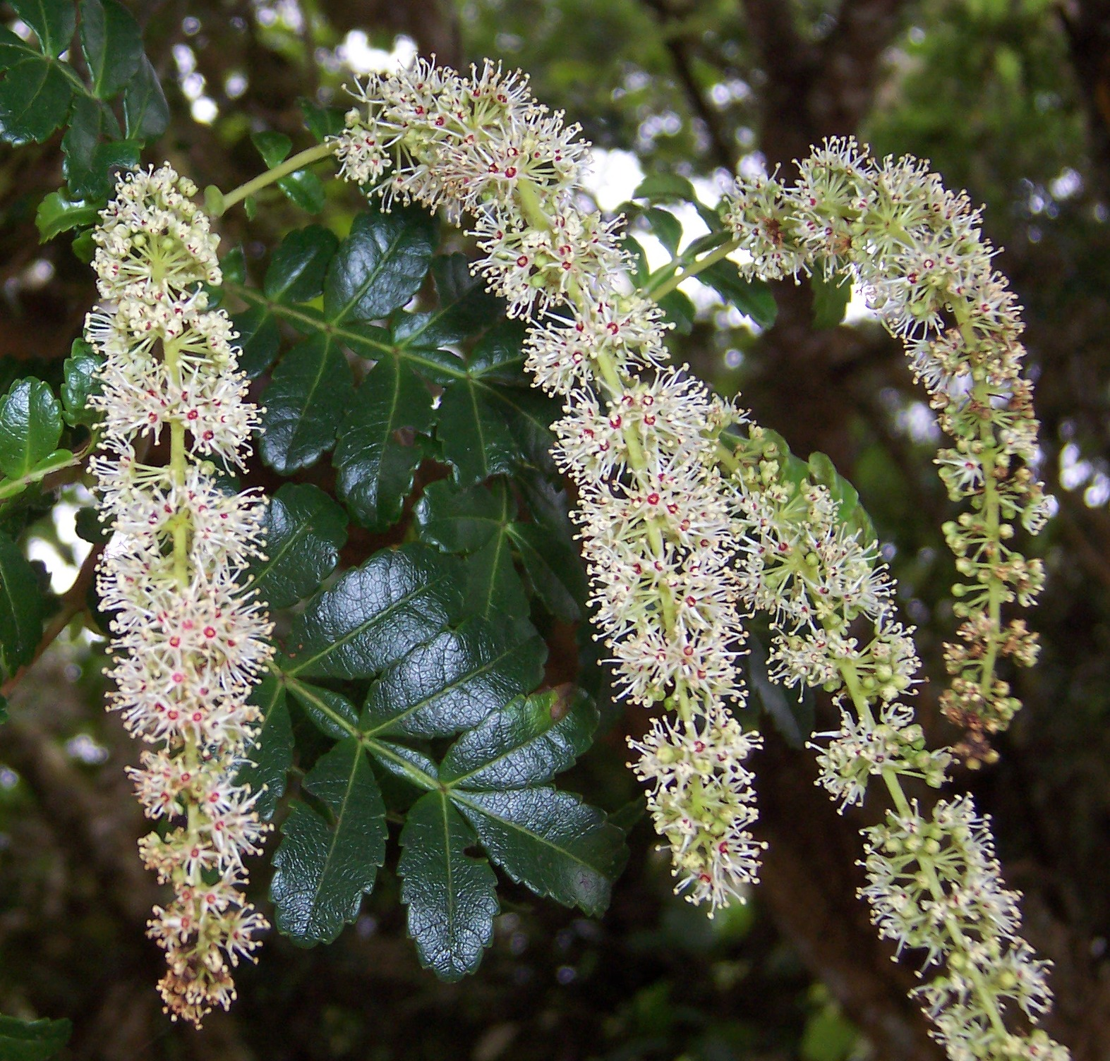 Tan rouge (Weinmannia tinctoria) - flowers Photo : B.navez - 10 NOV 2005 - Réunion Island (Le Tévelave)